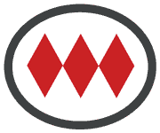 Logo of the Santiago Metro